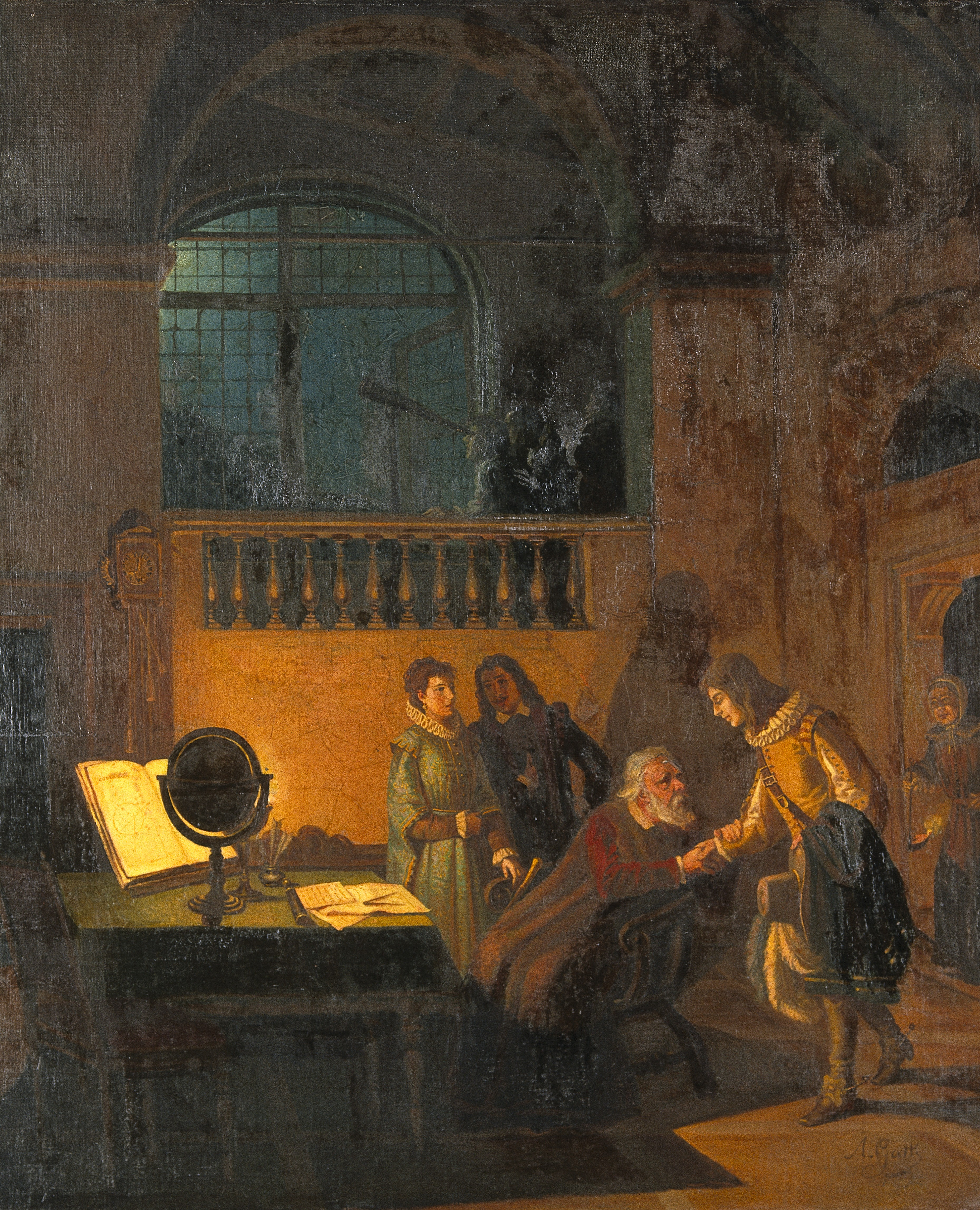 Galileo Galilei receiving John Milton. Oil painting by Annibale Gatti. Iconographic Collections Keywords: galileo; oil painting; Annibale Gatti